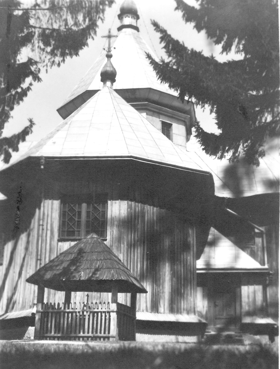 Church in Iordănești, Adâncata, Ukraine (image from the archive of the Metropolitan of Moldavia, 1936, free of copyright)